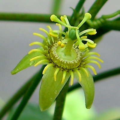 Scientific Name: Passiflora suberosa L. Common Name: Corky Stem Passion Flower Certainty: positive ( notes ) Location: Florida Keys; Upper Keys; Port Bougainvillea Date: 20061226